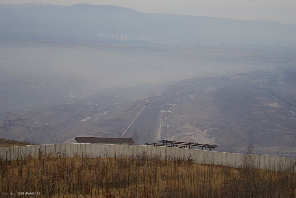 Ministerial prospect and coal mine Bílina Photo: January 2014